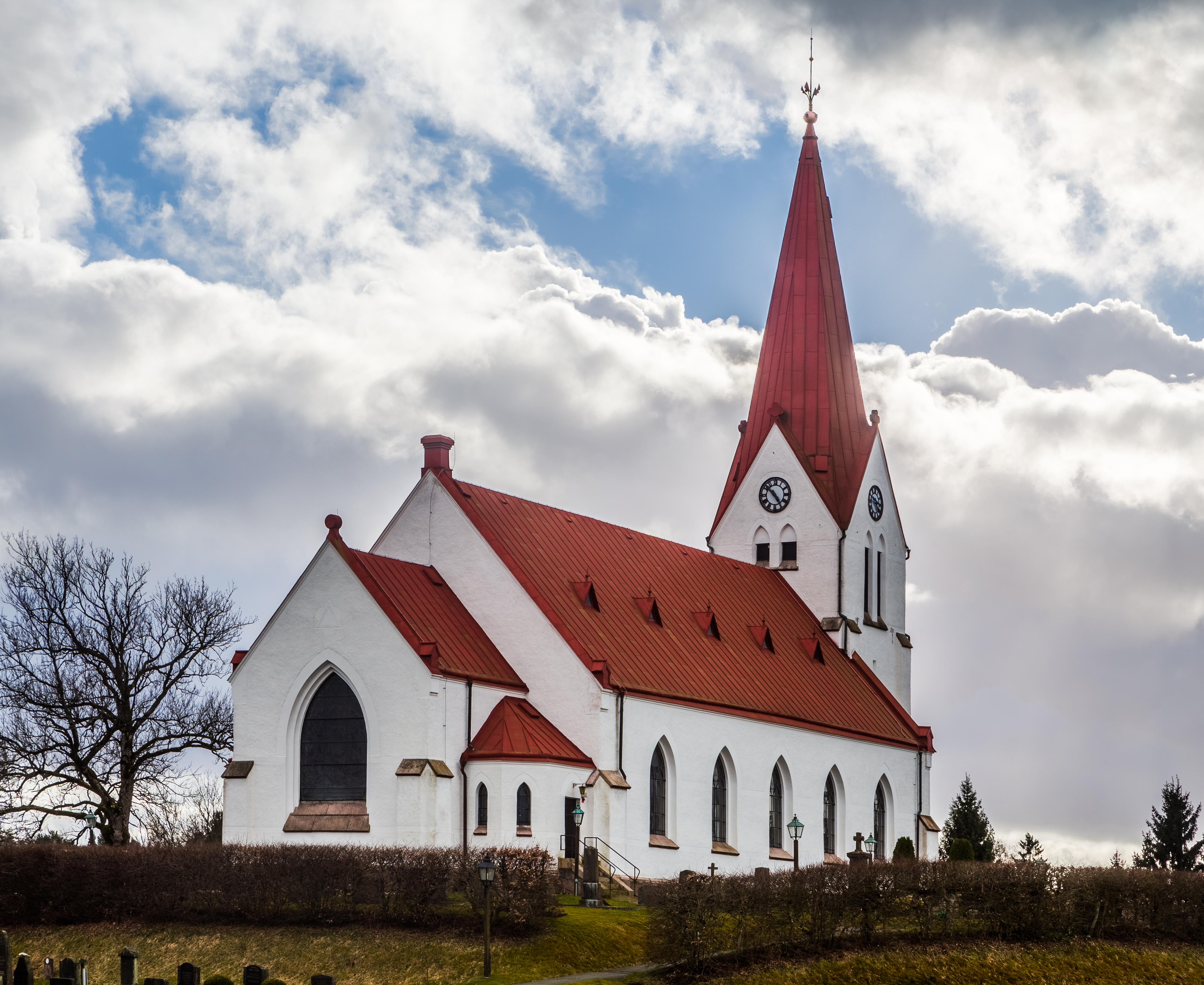 Röke parish church in Röke, Sweden.